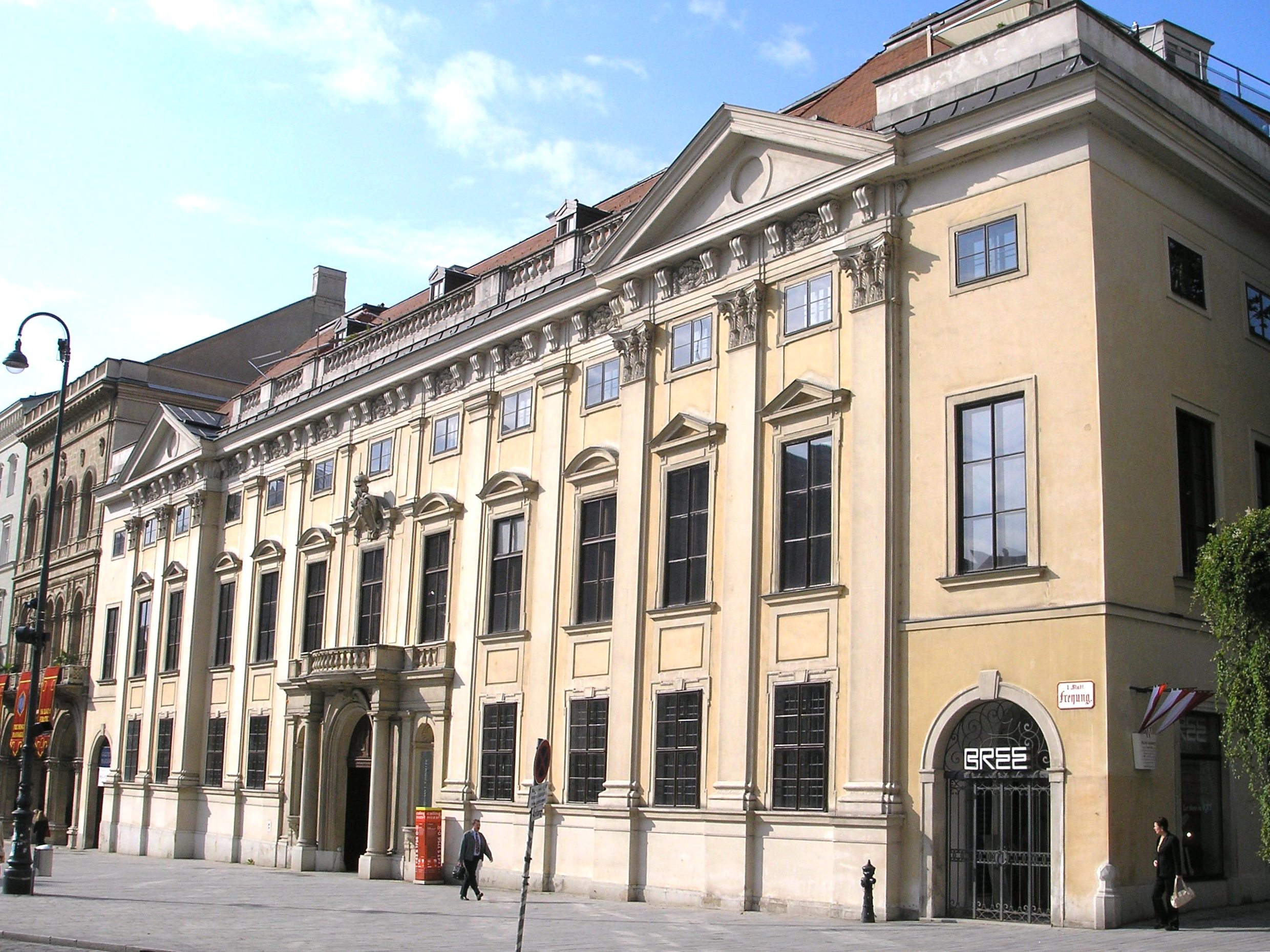 Palais Harrach at the Freyung, in Vienna. City-palace of the noble Harrach family. Constructed in the baroque era.